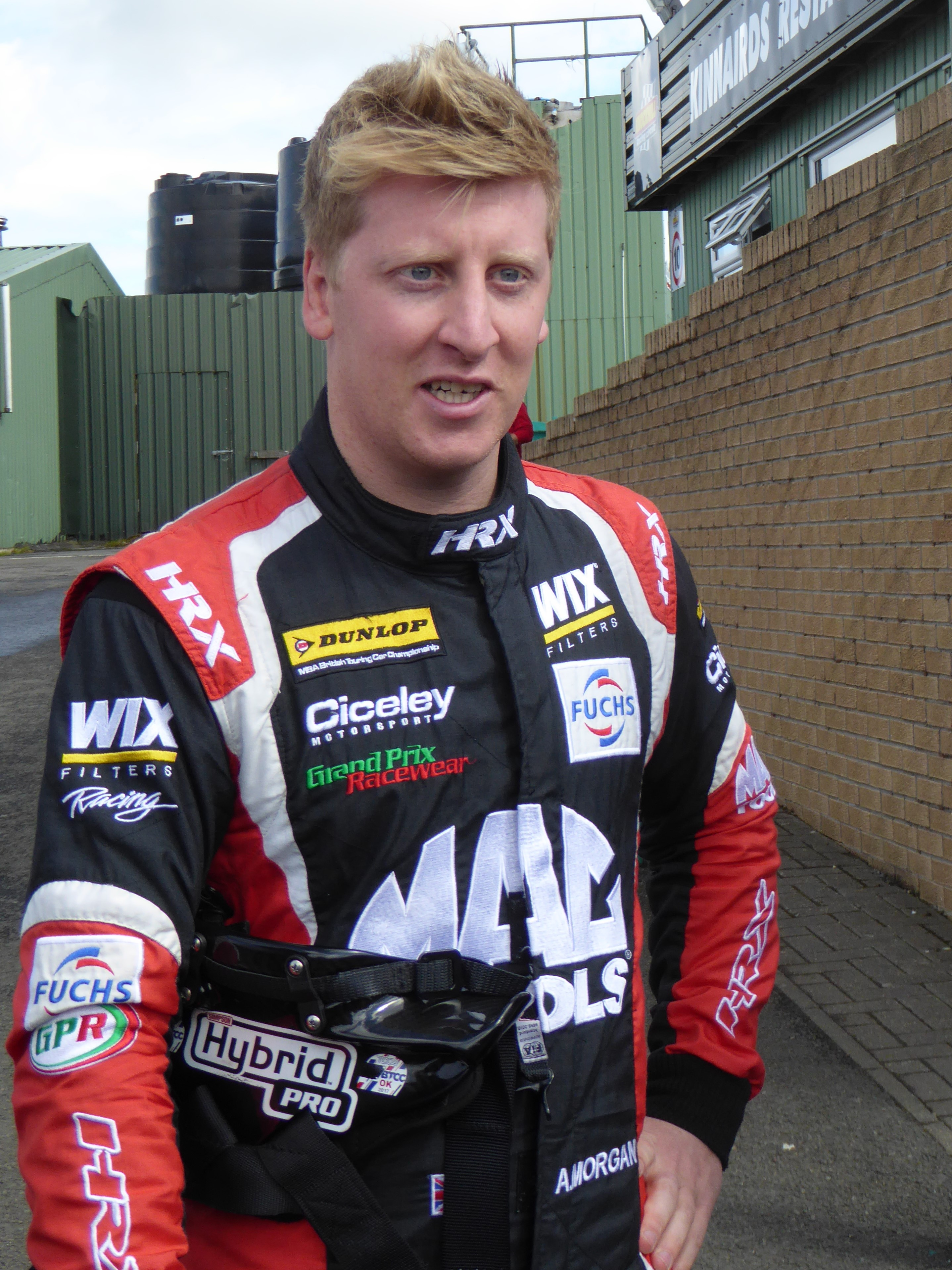 Adam Morgan (Ciceley Motorsport with MAC Tools), at the Knockhill round of the 2017 British Touring Car Championship.